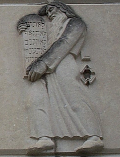 J.W. Sexton High School, Exterior Sculpture, Law